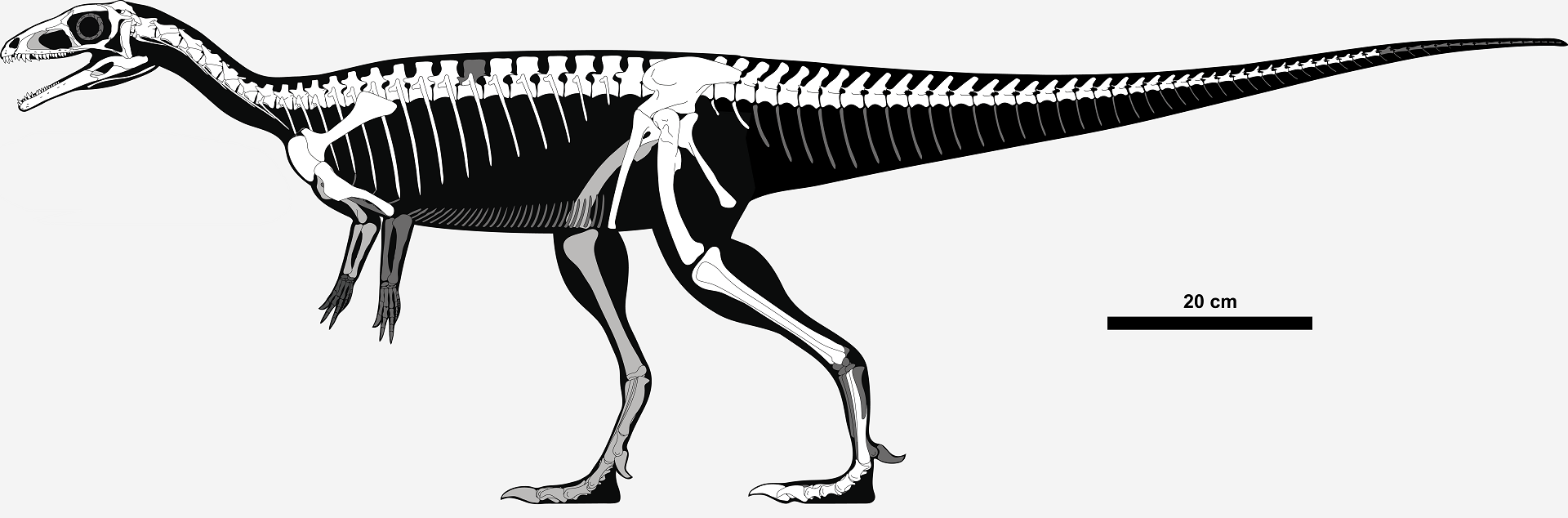 Digital drawing of the known skeletal remains of Buriolestes schultzi. Known elements represented in white and unknown in gray.